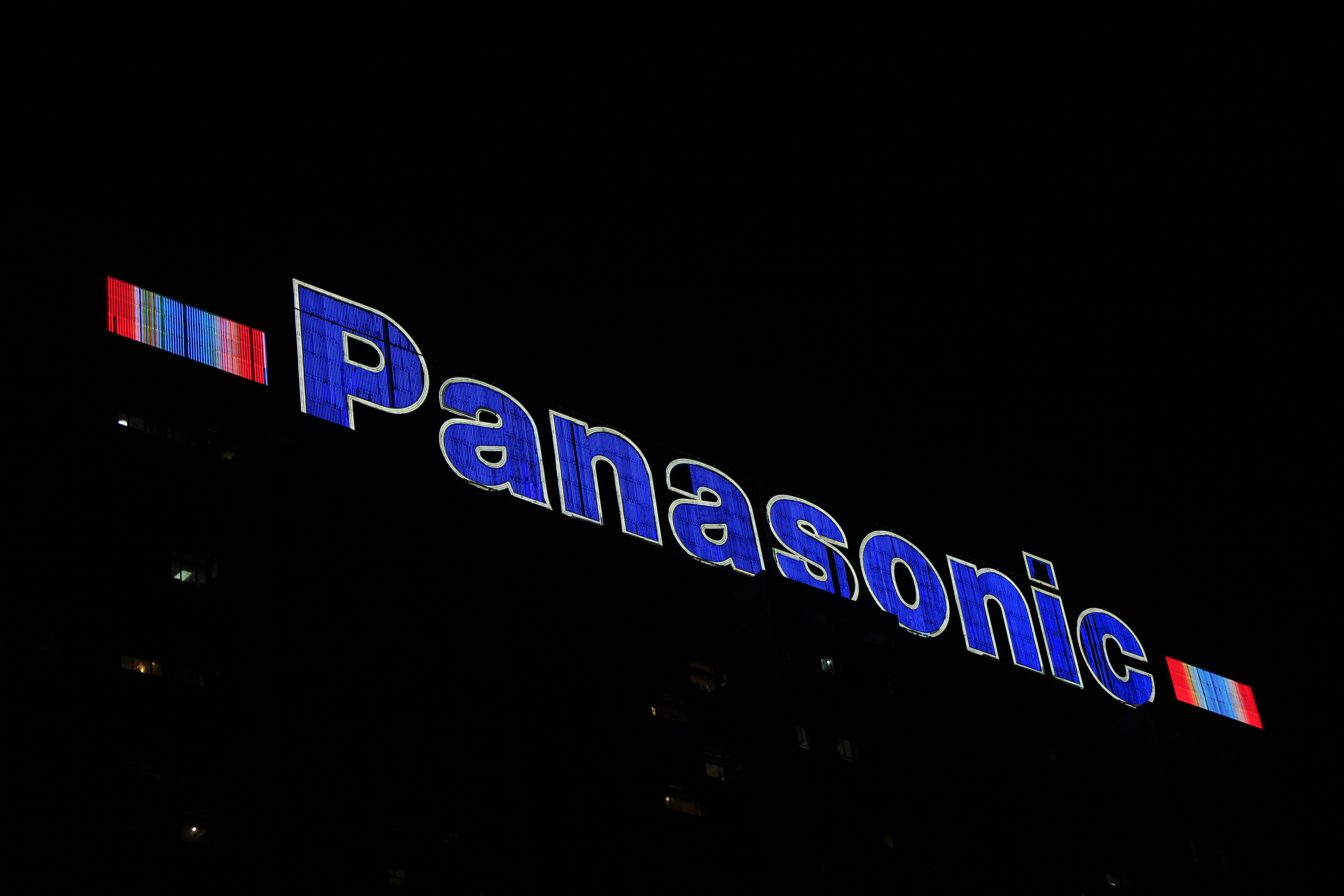 The huge Panasonic neon sign installed on the rooftop of Elizabeth House in Causeway Bay